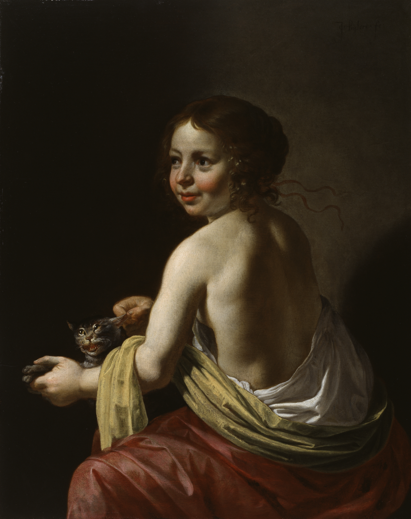 A child teasing a cat is a frequent subject in Dutch art; it refers to the idea that (sexual) teasing can lead to a painful scratching. That this mischievous girl is partially disrobed makes the consequences more obvious and erotic-since her bared skin teases the viewer as well. Her voluptuousness and apparent cheerfulness suggest a brothel, not the everyday life of children. Van Bijlert, a leading master in Utrecht, owes his sensual treatment of the human body to the influence of his teacher Abraham Bloemaert and the paintings by the great Italian master Caravaggio that he saw while in Rome (1621-24/25), such as the latter's melancholic, starkly sensual "Musicians," from which he apparently adapted the shoulder and arm of the boy at the right for this girl.